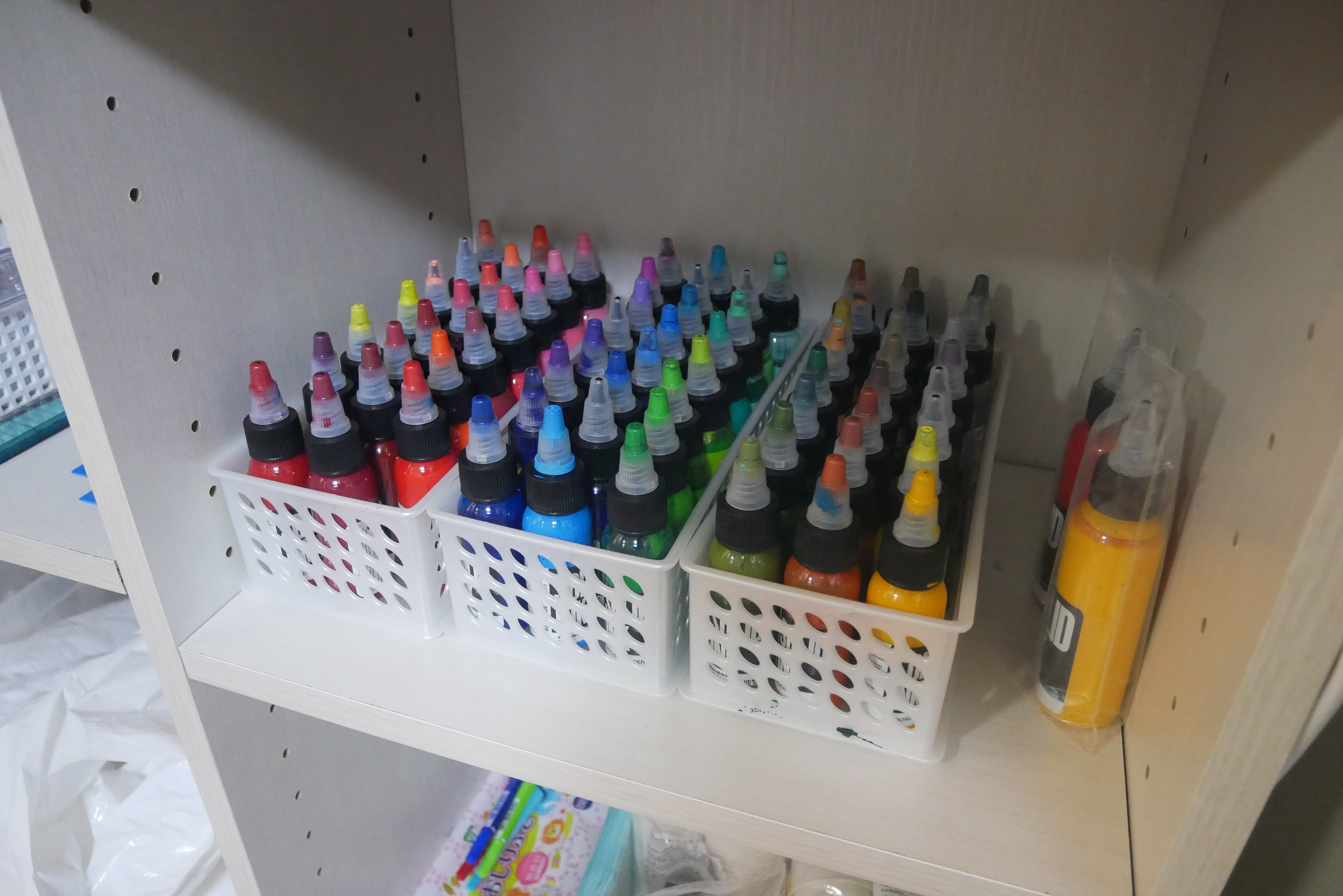 Various colors of tattoo ink in bottles